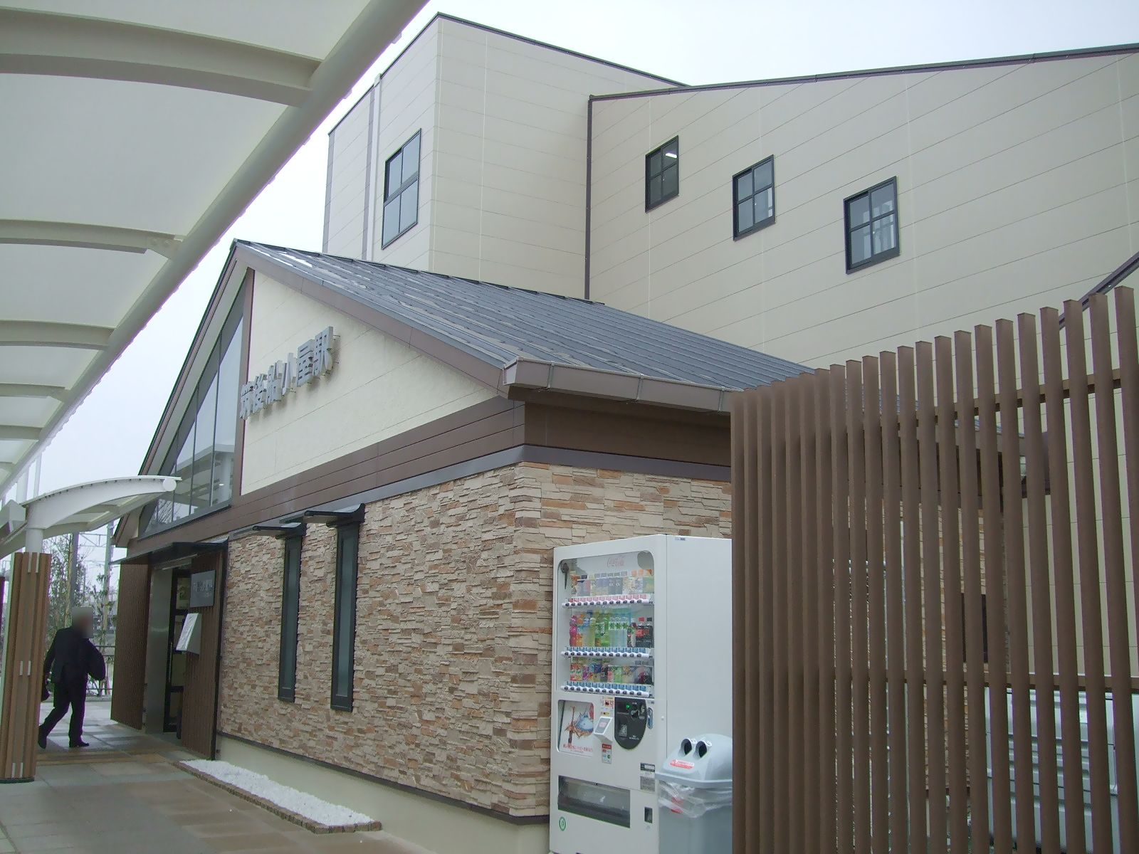 Chikugo-Funagoya Station, Kagoshima Main Line, Kyushu Railway Company.